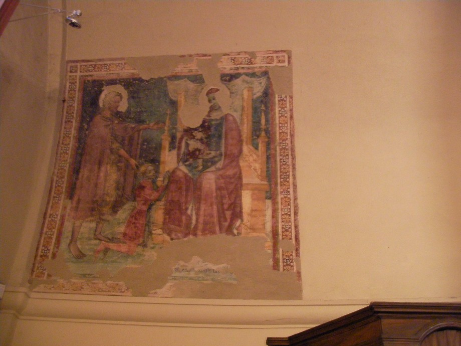 A fresco of the church della Commenda to Faenza that represents the Madonna in throne, St. Giovanni Battista and a devotee, dated 1410-1420.